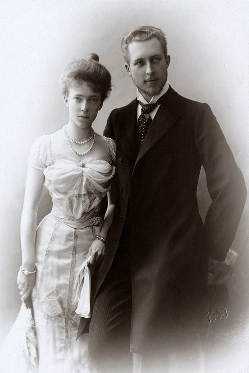 Albert I von Belgien mit Königin Elisabeth